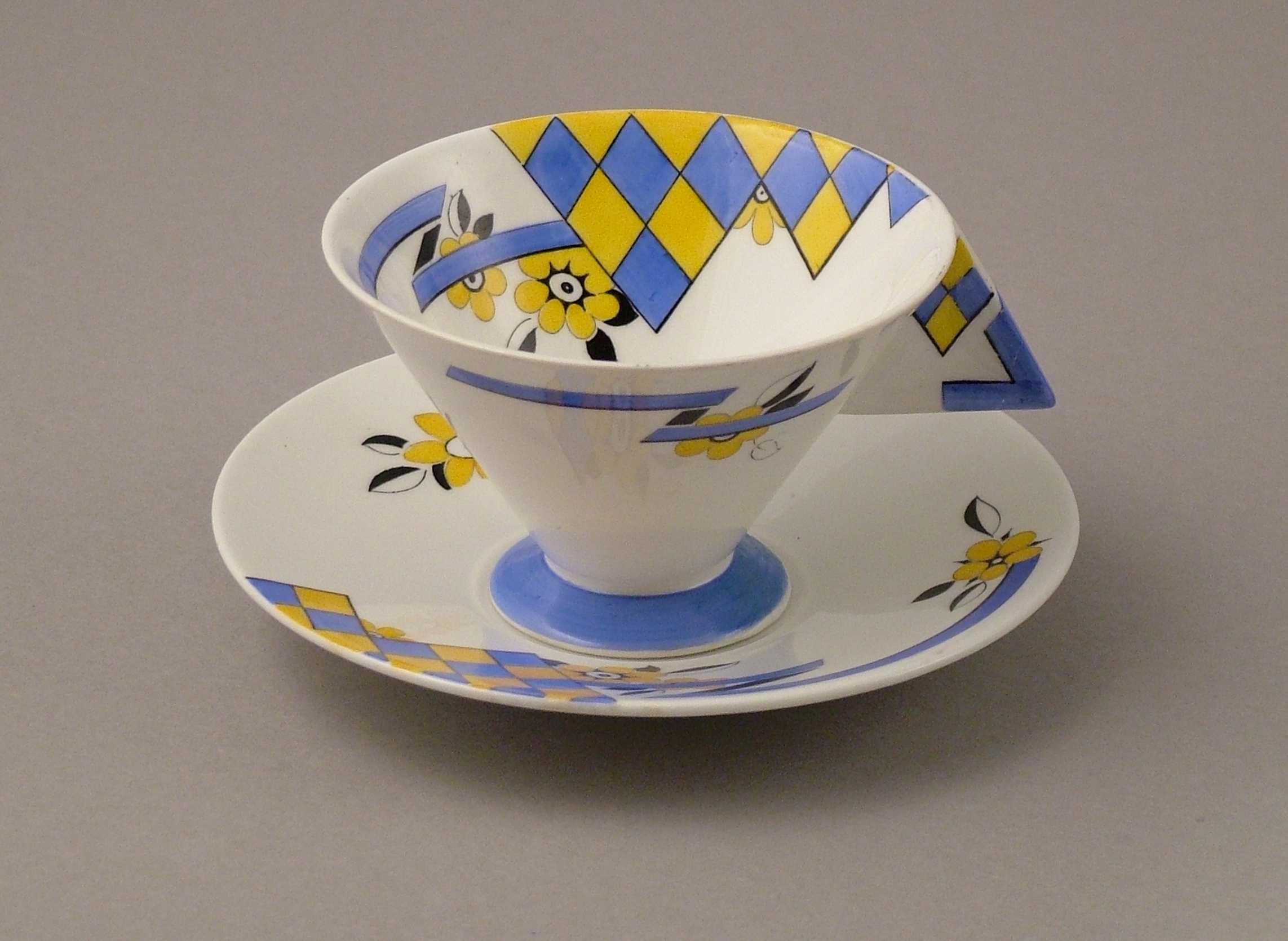 Shelley Vogue shape cup and saucer, designed by Eric Slater 1930